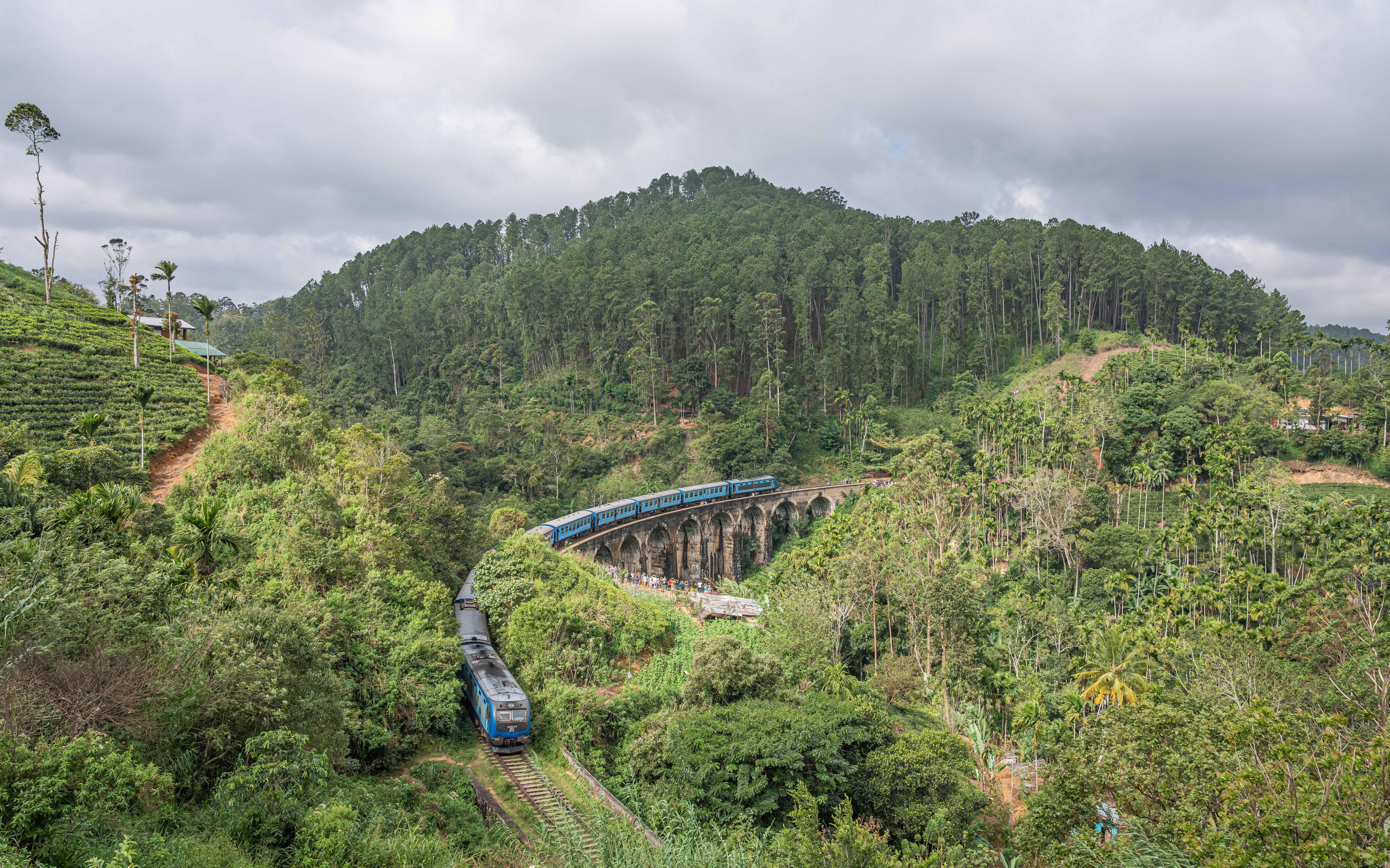 Nine Arches Bridge in Demodara near Ella, Sri Lanka